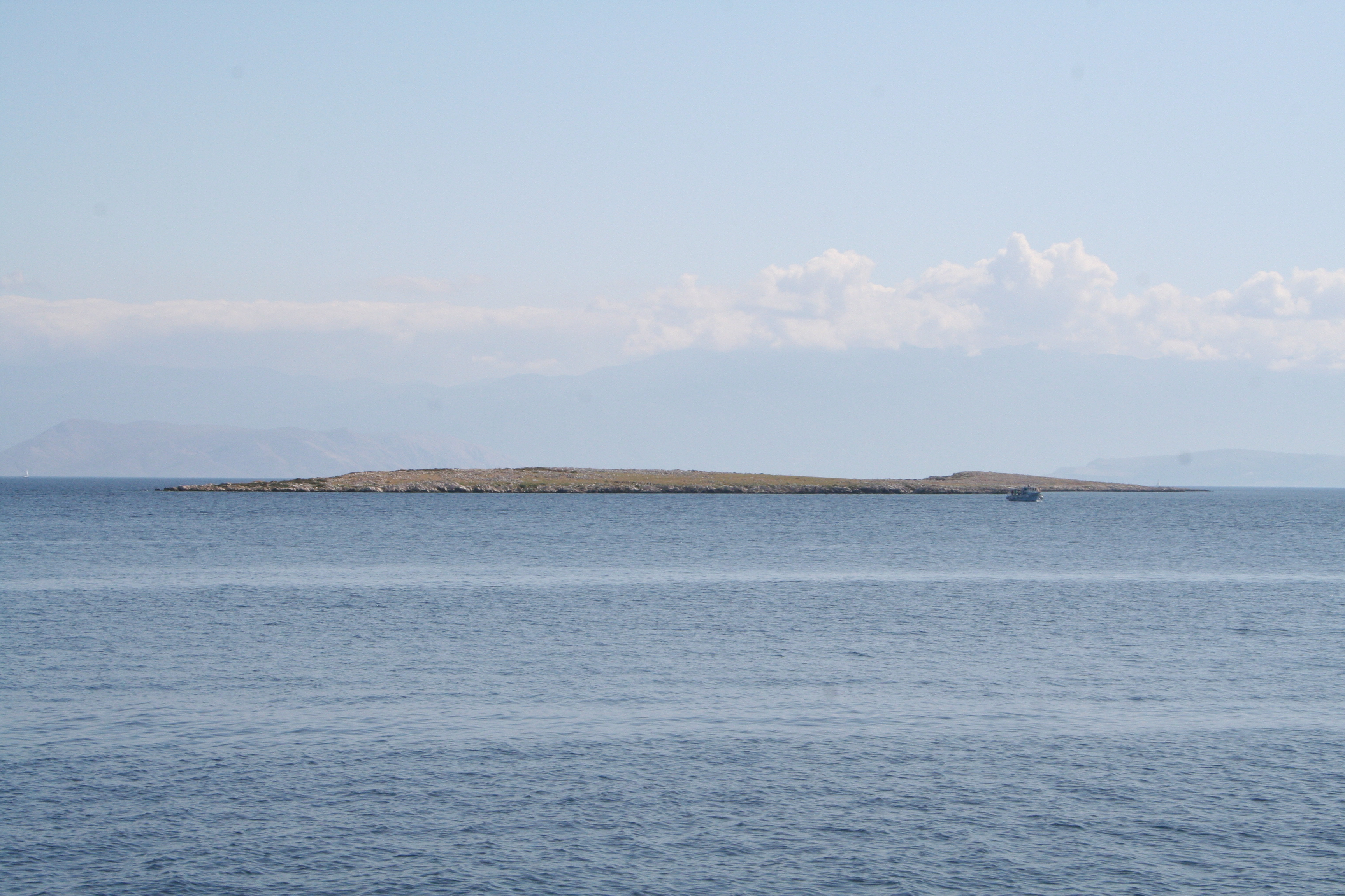 The Island of Kormati, Croatia